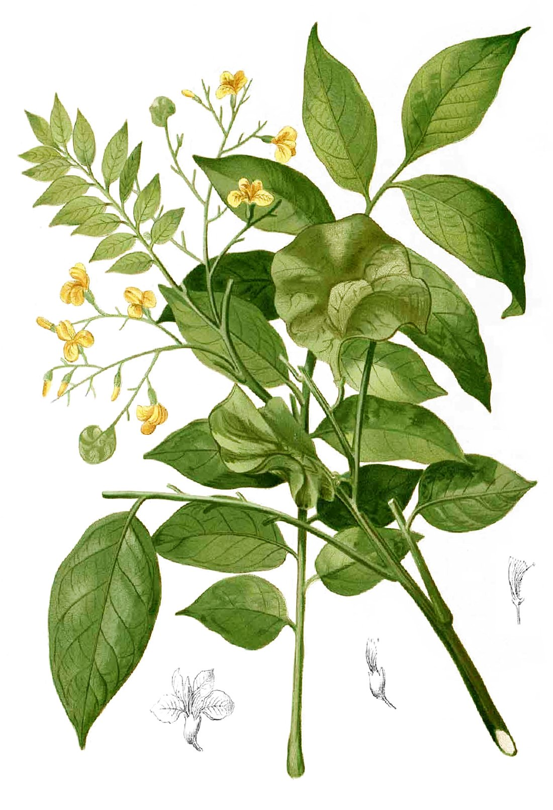 Plate from book